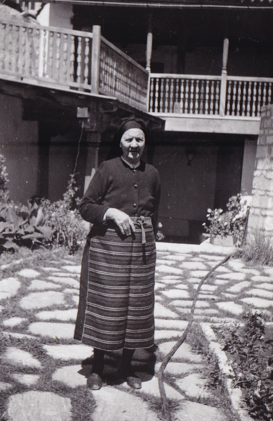 Elena, mother Of Nikola Vapcarov